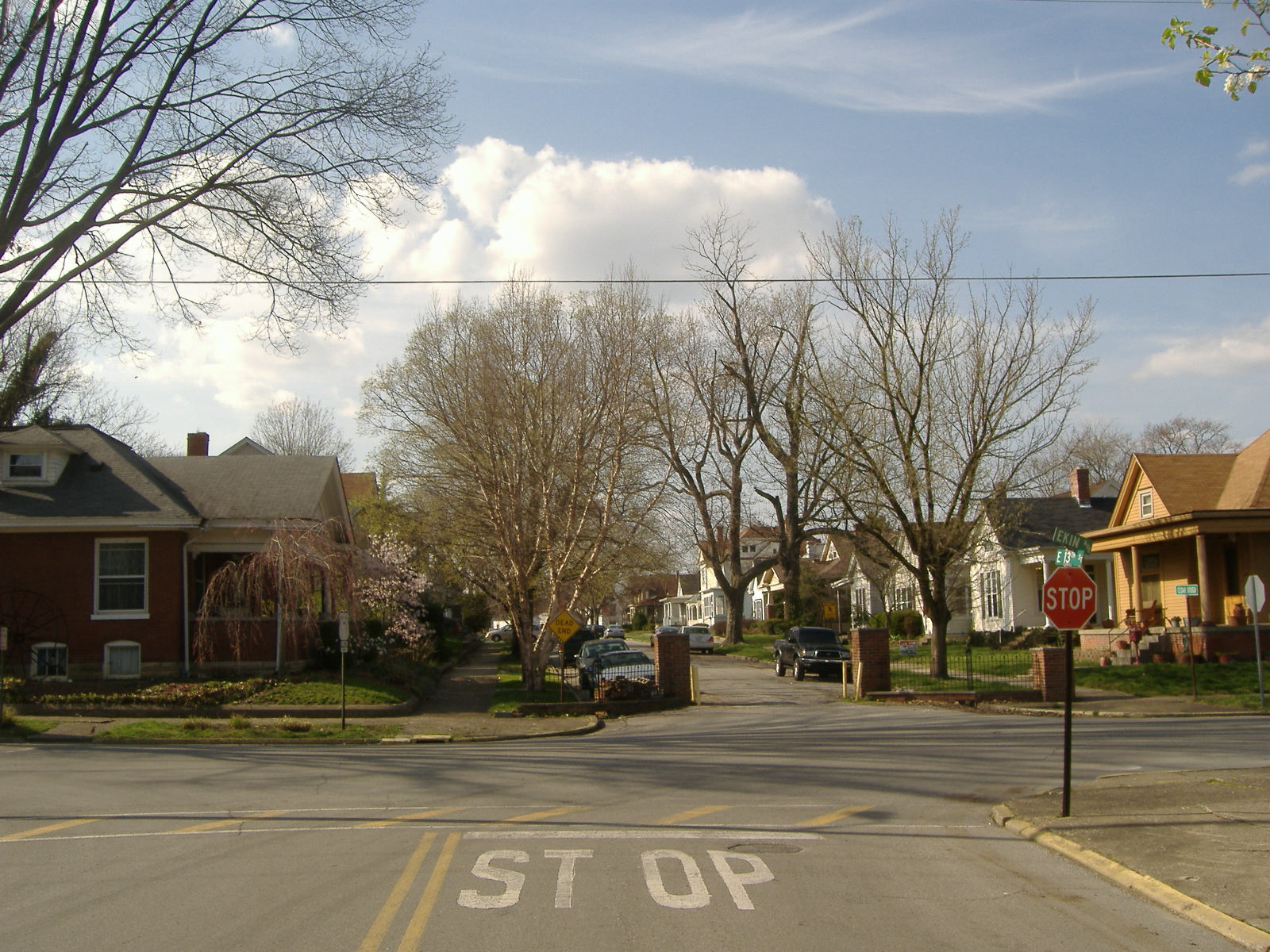 Southern entrance to Cedar Bough Place Historic District in New Albany, Indiana.